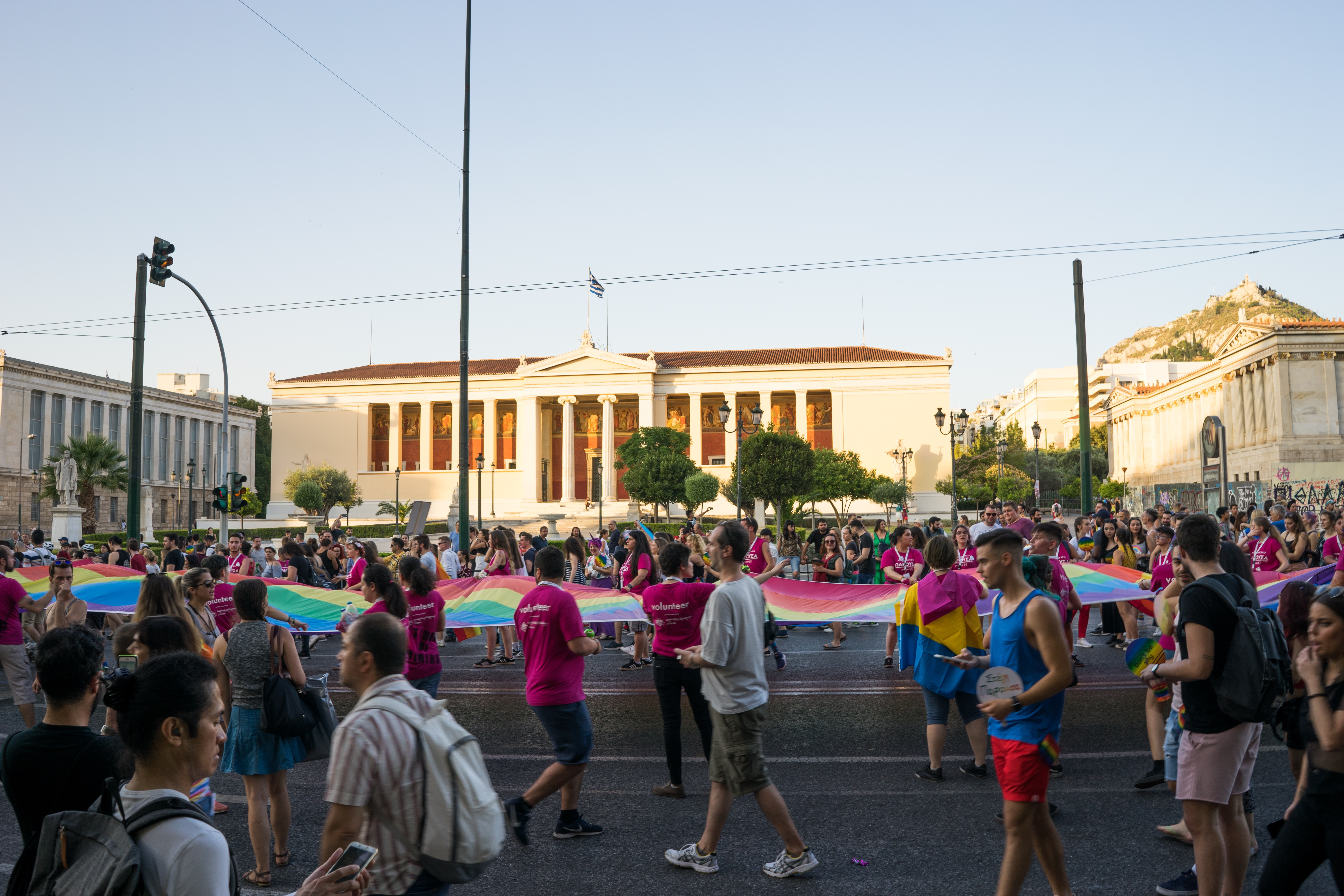 Location: Greece AthensEvent type: Athens Pride 2018Date or year: 2018